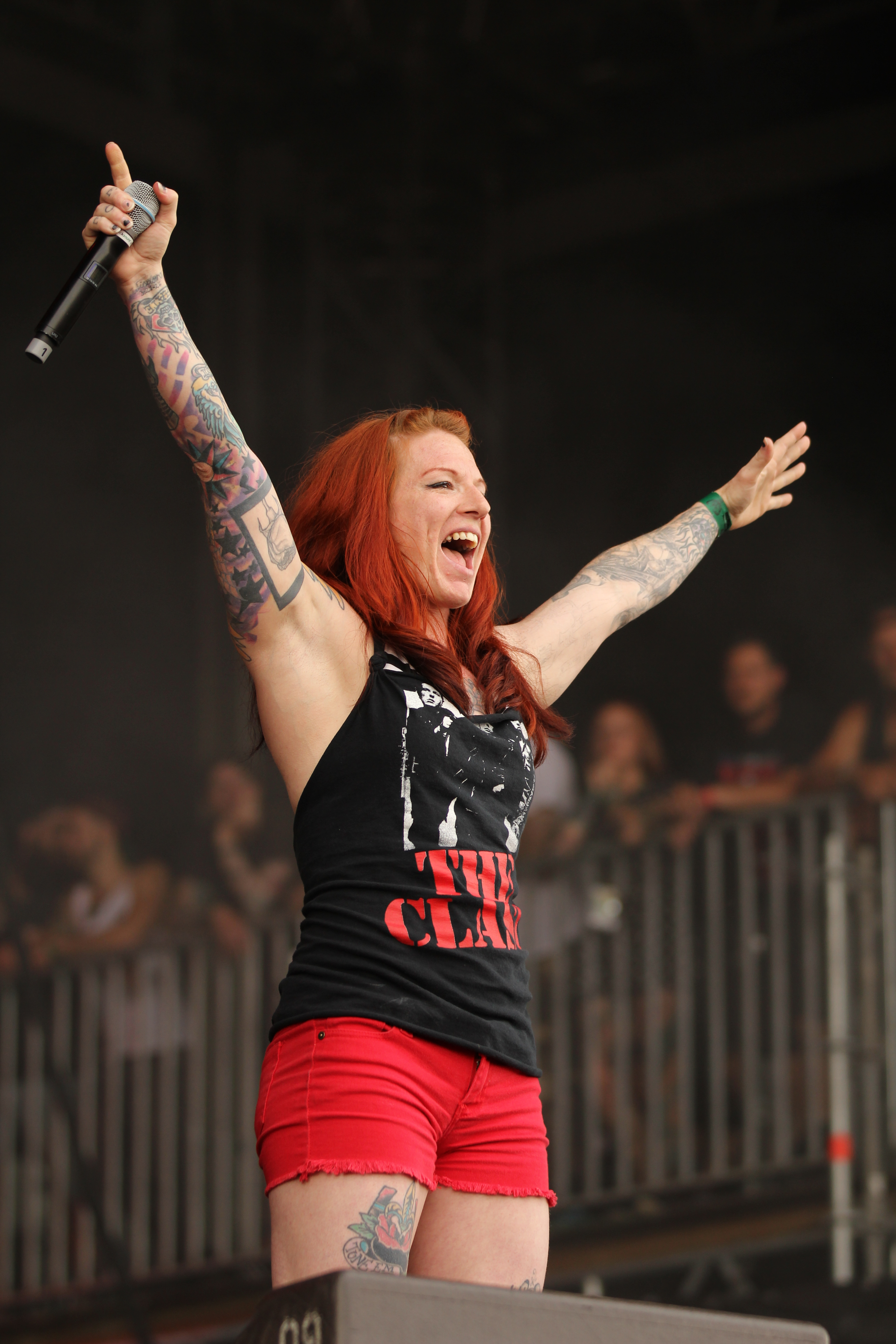 The American metalcore band Walls of Jericho at the With Full Force festival 2014 in Roitzschjora/Germany